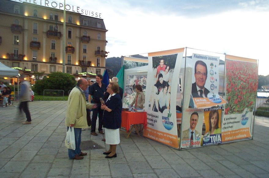 An election stand for the Olive Tree coalition, during campaigning for the European Parliament election, 2004, Como, Italy, 2004-06. Note that the poster shows Romano Prodi and roundels (party electoral/ballot logos) for each of the constituent parties in the coalition. Copyright © Kaihsu Tai